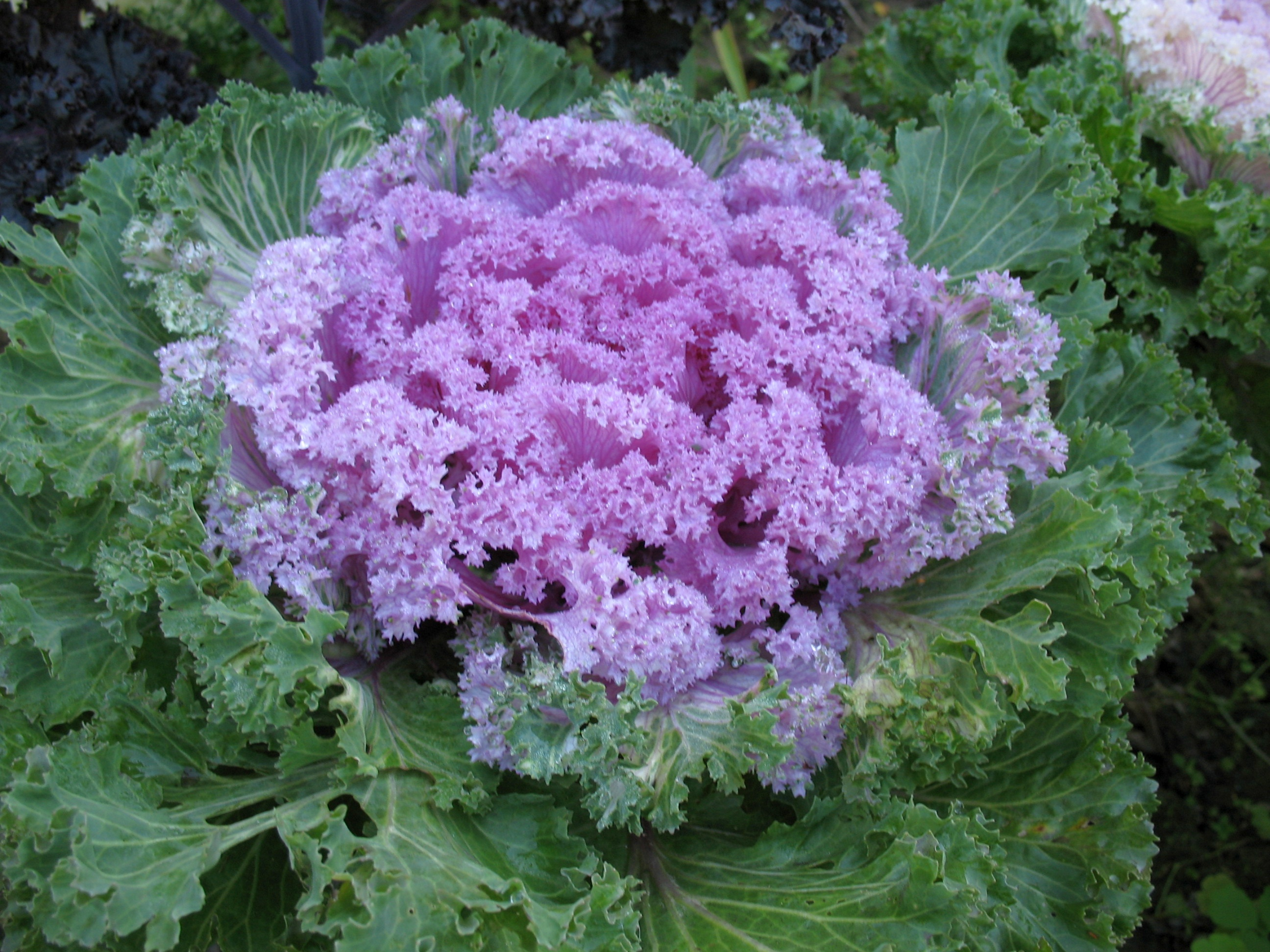 Ornamental kale.